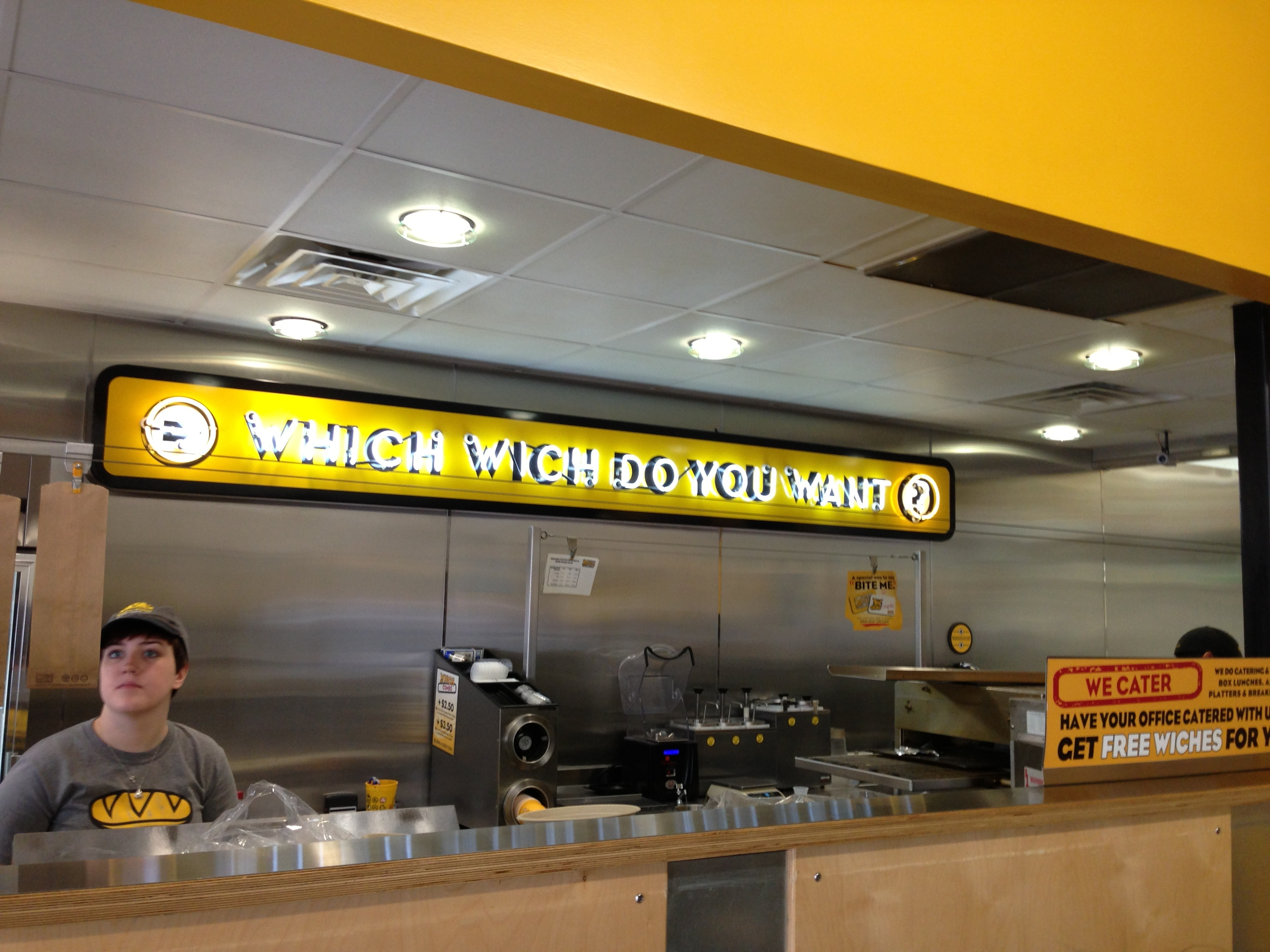 This is a Which Wich store in Houston